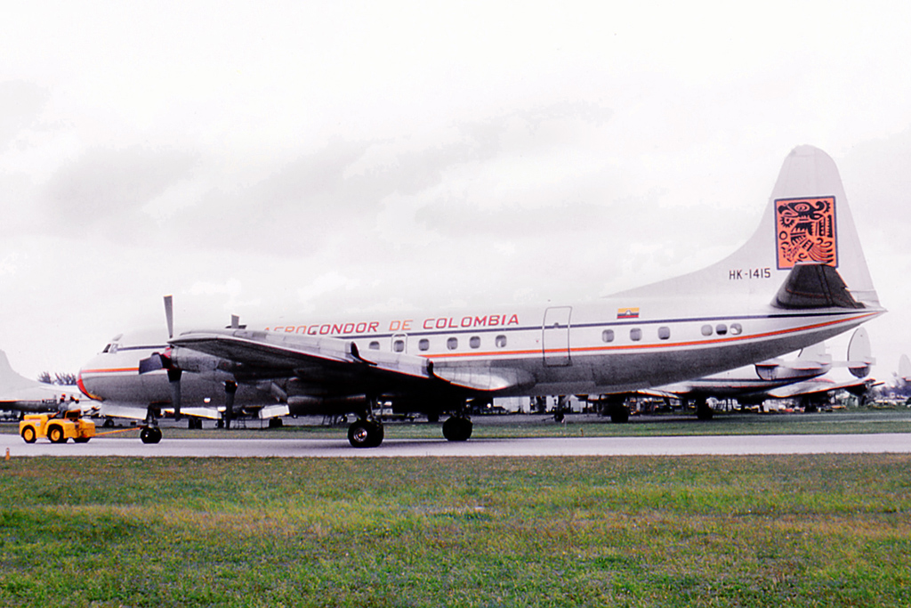 Lockheed L-188A Electra HK-1415 of Aerocondor de Colombia at Miami International Airport in 1970